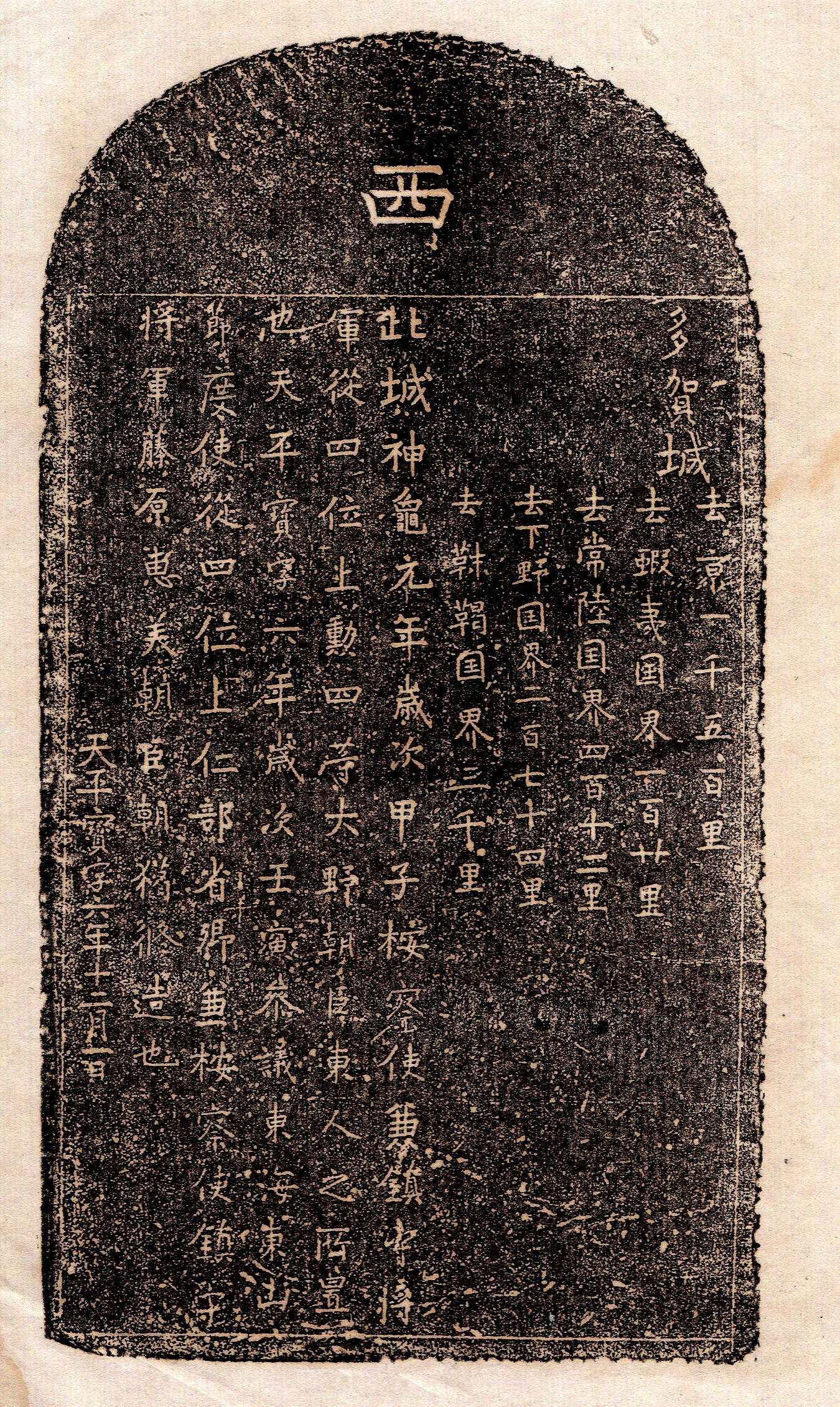 Copy of Tagajō Stele - This picture was printed in Japanese book " Dokusyo-Yoteki". The book was published in 1900.